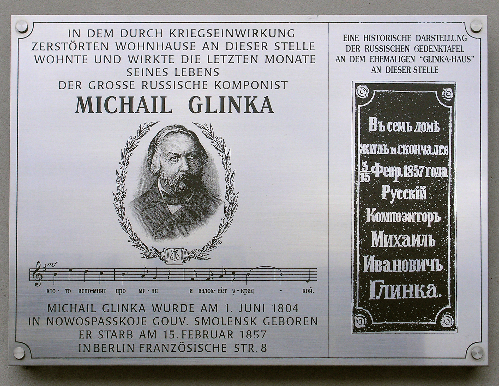 Memorial plaque,Michail Iwanowitsch Glinka, Französische Straße 8, Berlin-Mitte, Germany Koordinate:52°30′52.3″N 13°23′10.4″E / 52.514528°N 13.386222°E